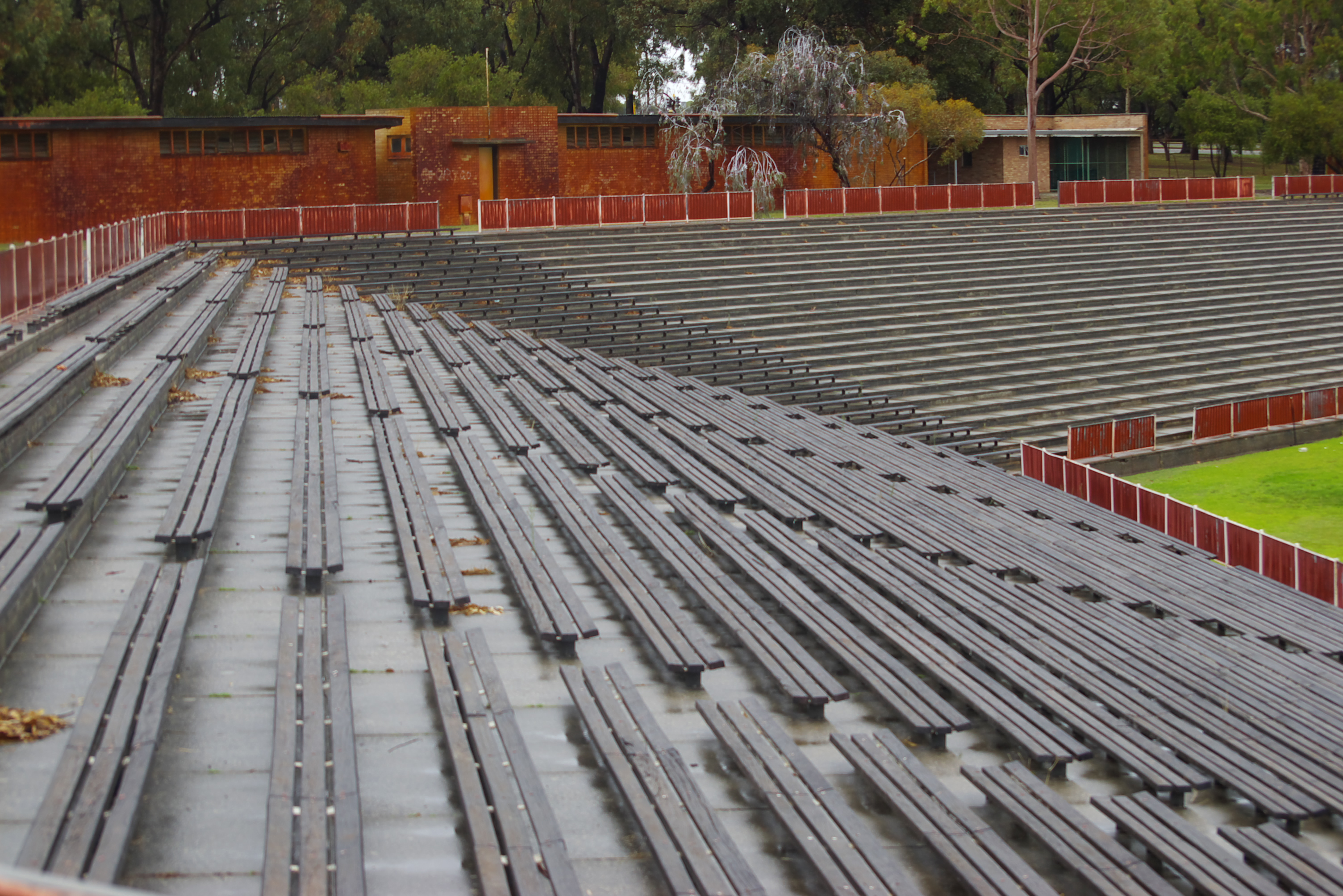 Jarrah timber bench seats part of the Perry Lakes stadium built for the 1962 Empire Games (Commonwealth Games)